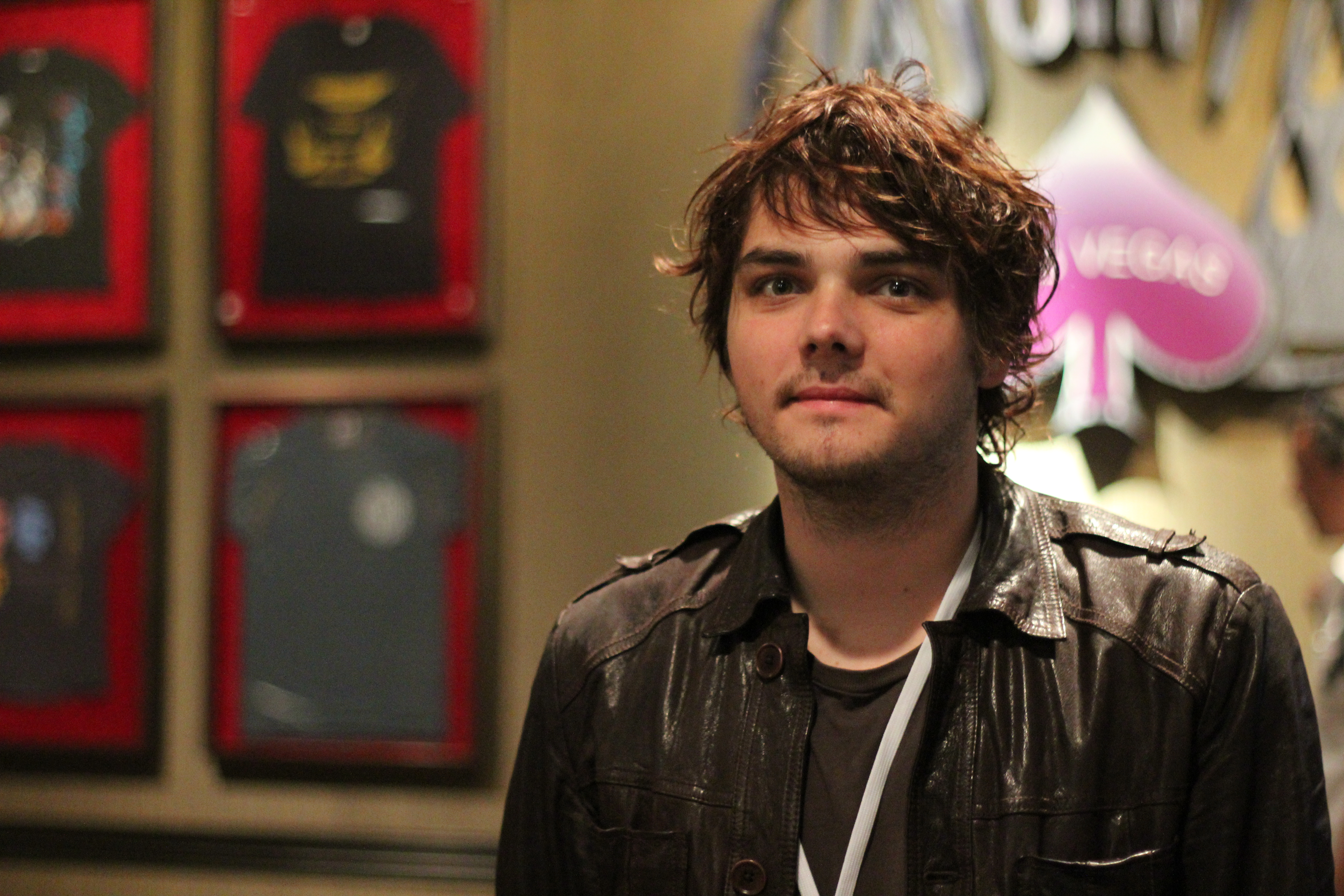 My Chemical Romance singer Gerard Way in 2012, at the MorrisonCon comic convention